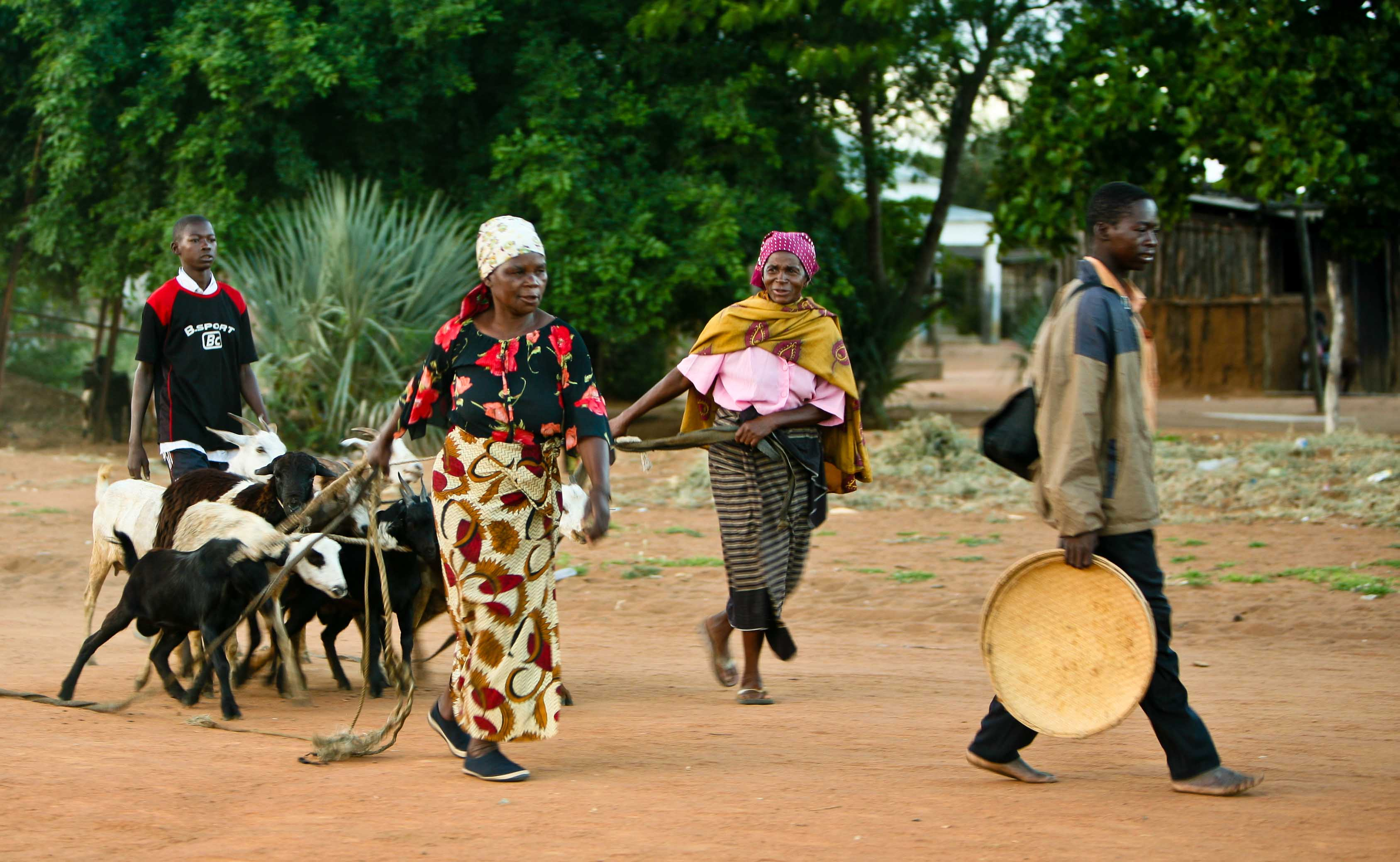 Women lead their goats to a market in Mapai, Gaza Province, Mozambique.